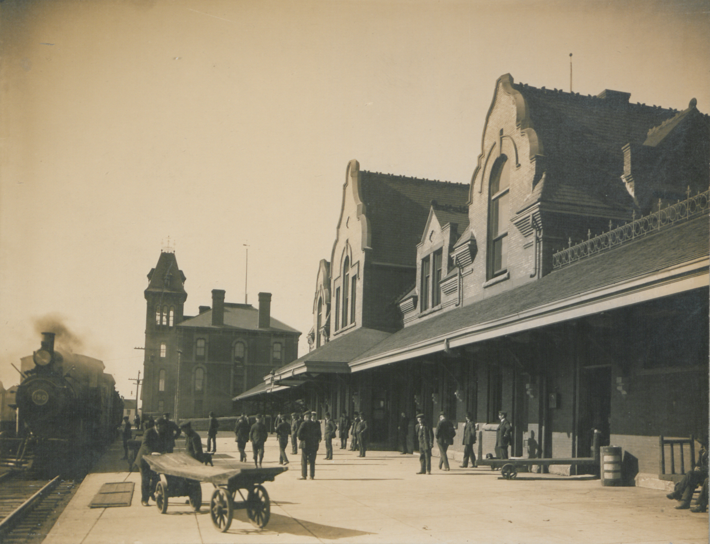 Original caption: “IRC Station, Pictou, NS.”